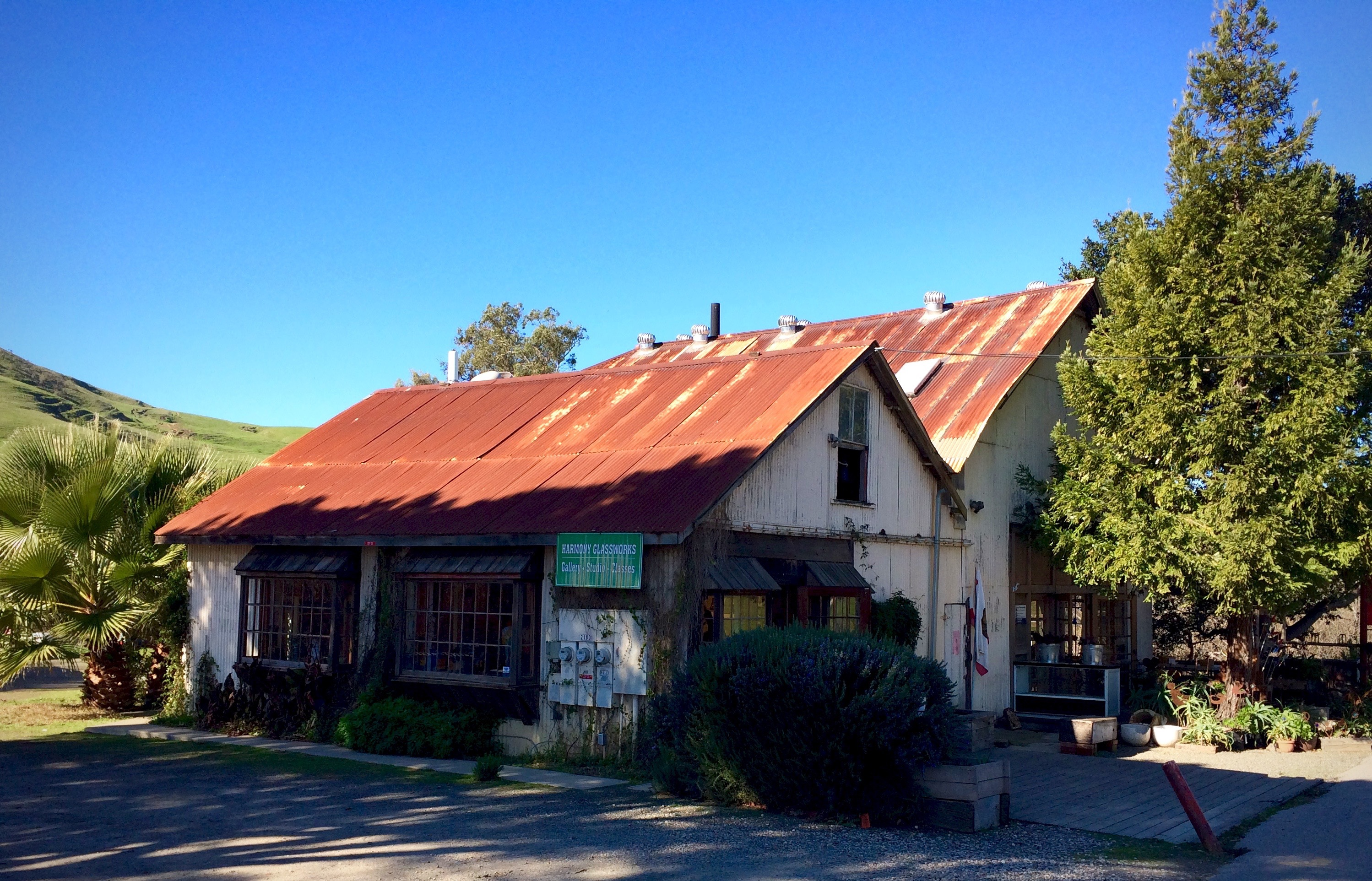 Harmony CA, advertised pop. 18. Part of the old Harmony Cremary plant. Pretty day!